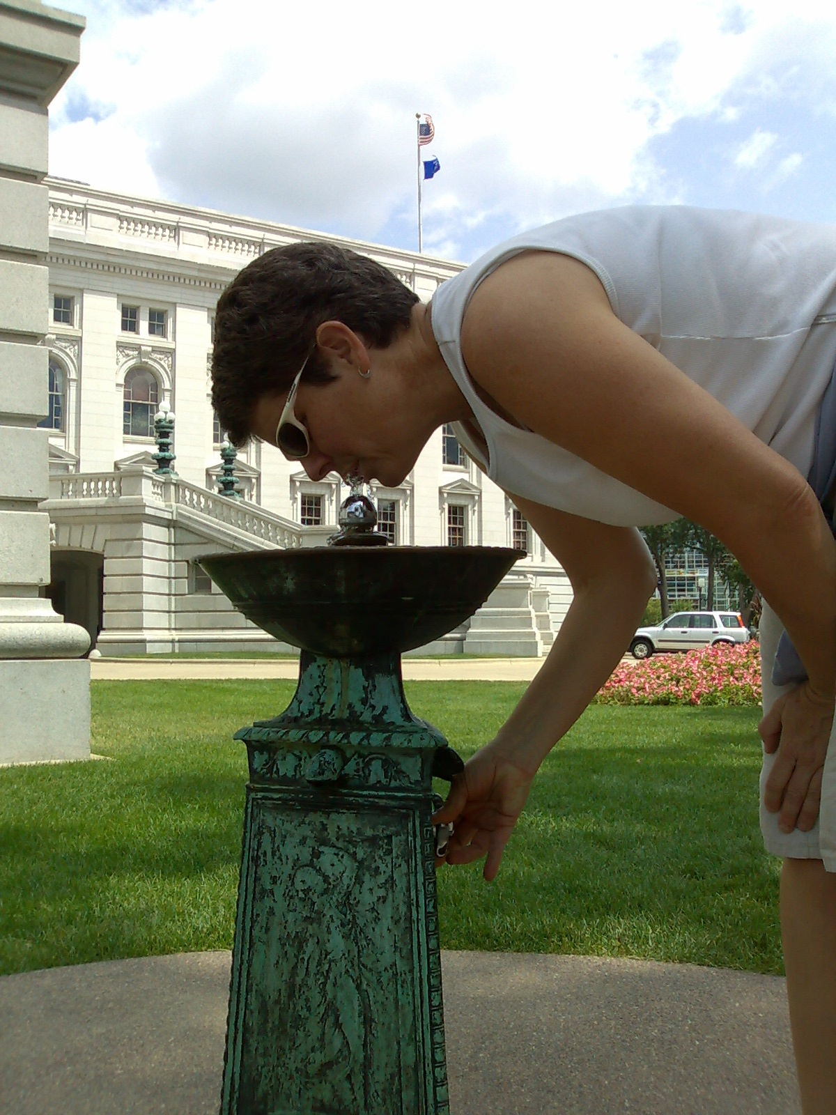 Citizen using an original Kohler bubbler at the Wisconsin State Capitol in Madison, Wisconsin.